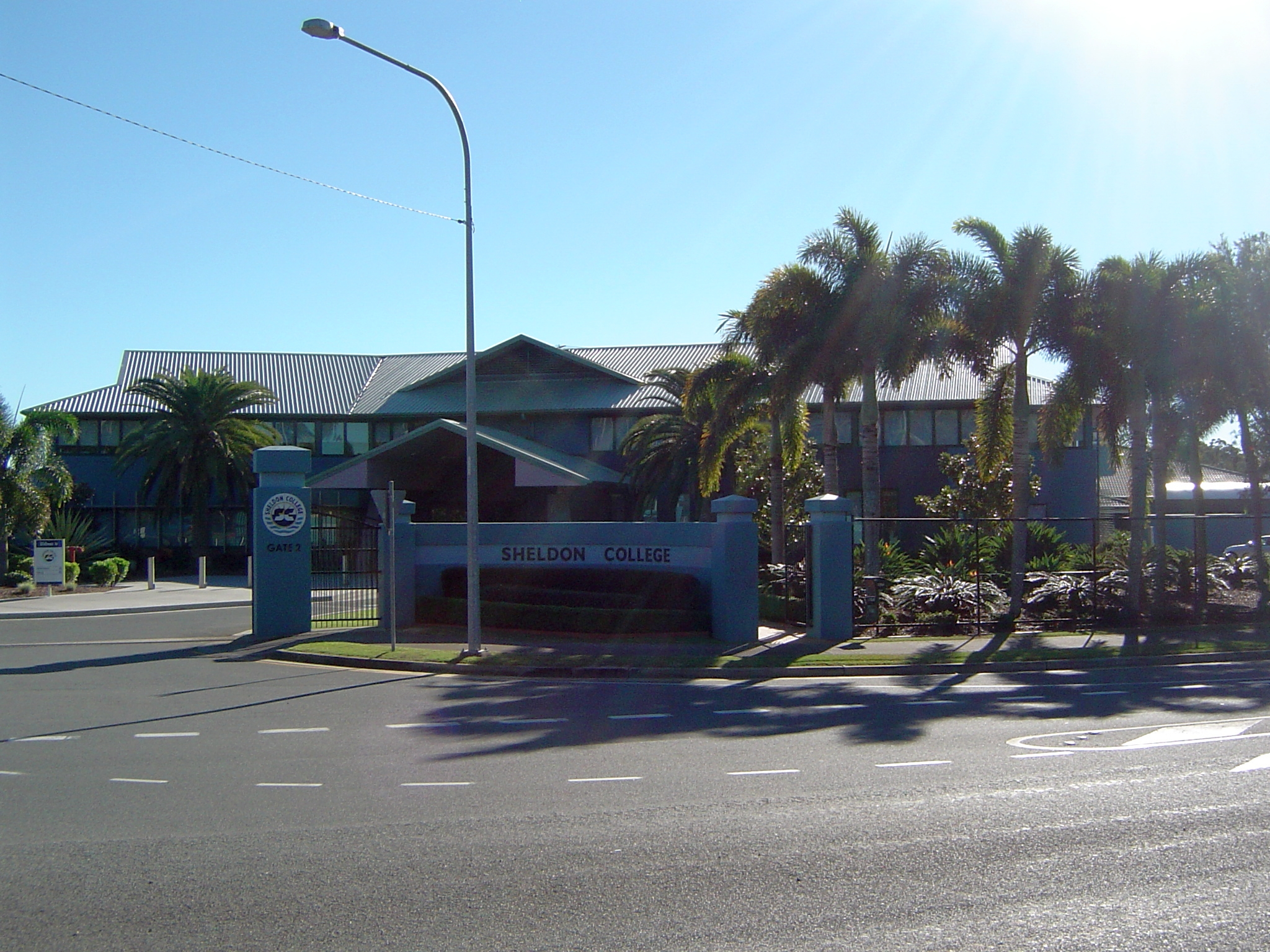 Photo of Sheldon College entrance at Sheldon, Redland City, Queensland, Australia.